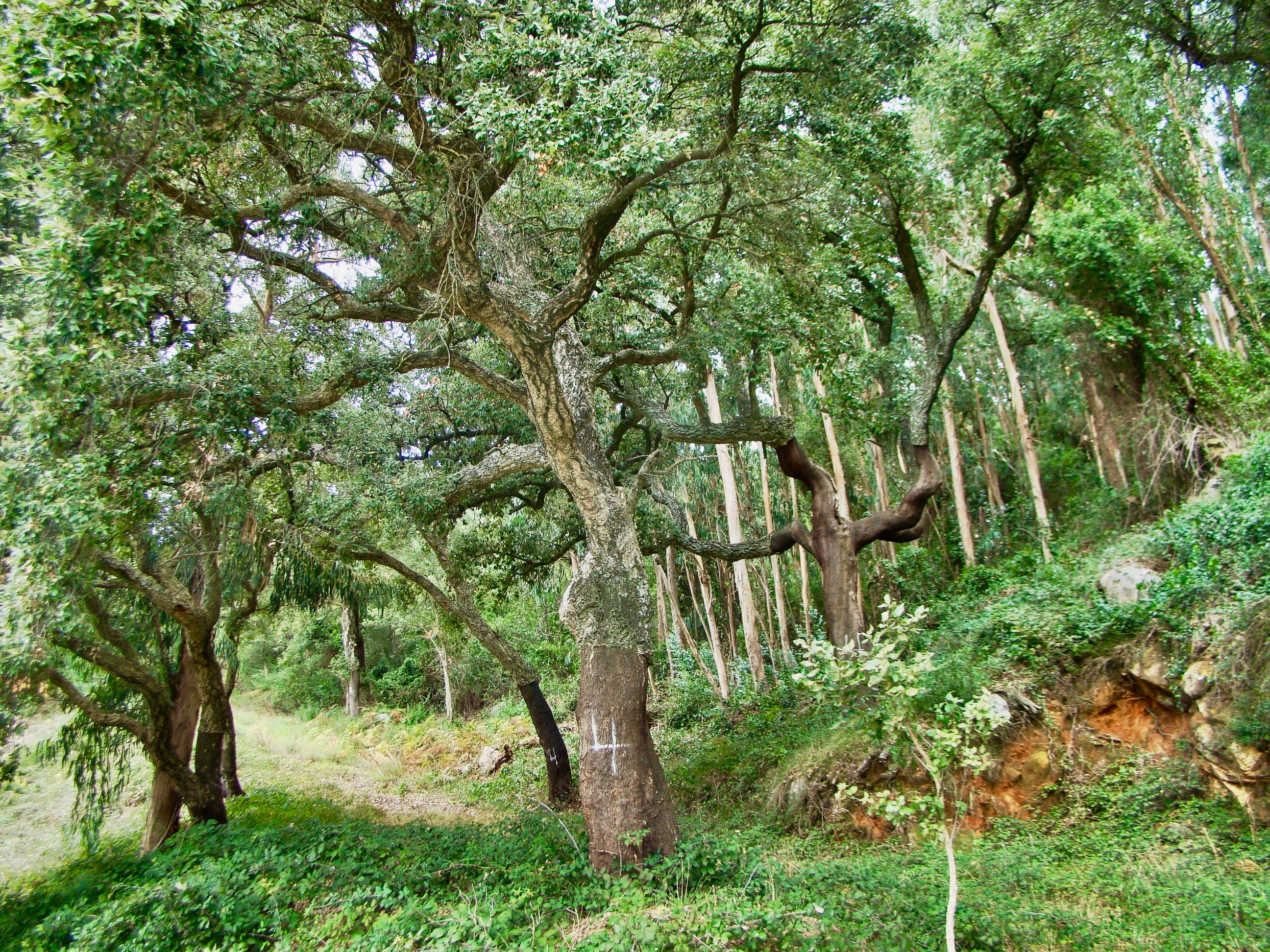 Cork oak (Quercus Suber) trees in Monchique, Algarve - Portugal. Photo taken on 04/11/2018.